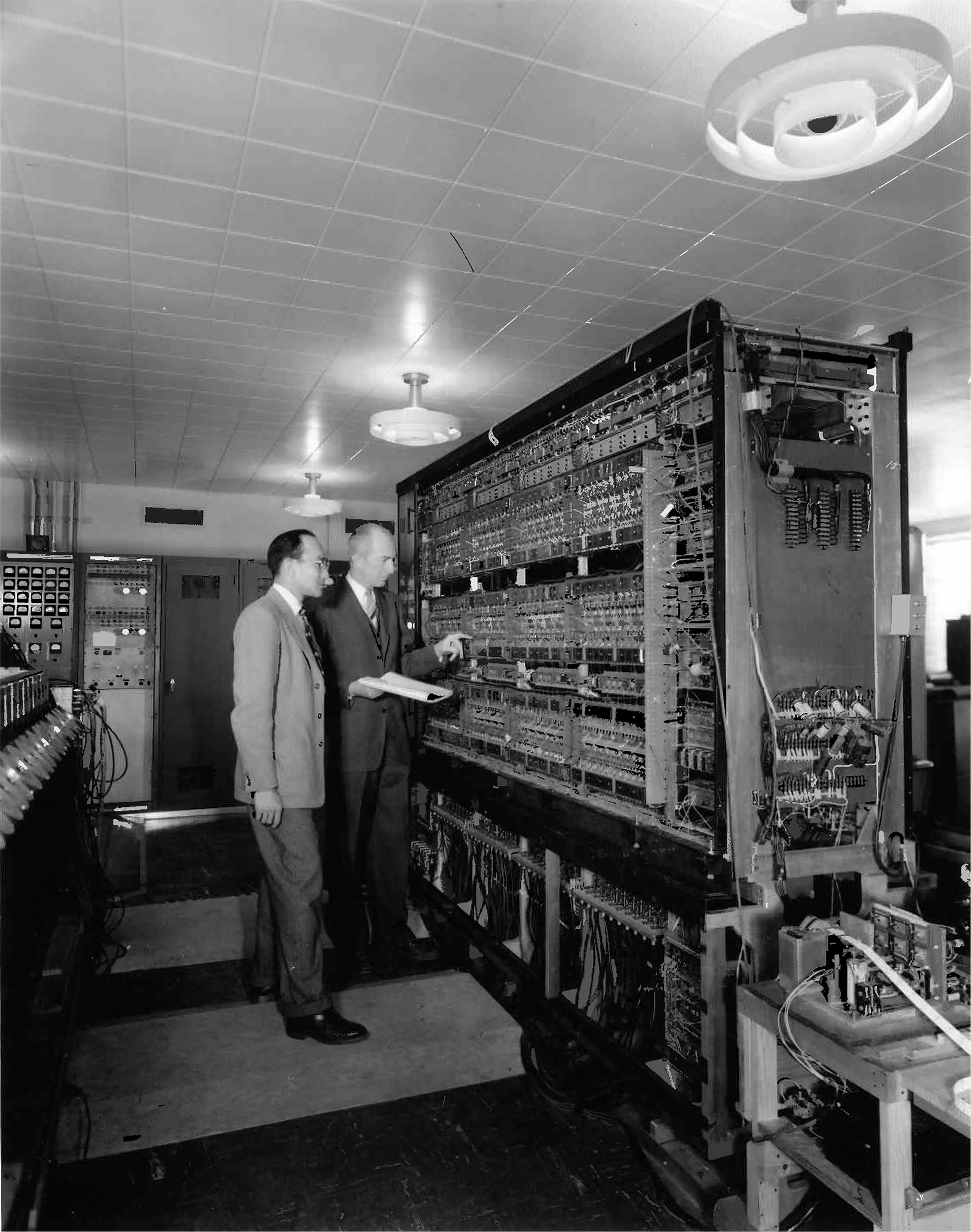 AVIDAC was Argonne's first digital computer. Designed and built by Argonne's Physics Division for $250,000, it began operations Jan. 28, 1953. AVIDAC stands for "Argonne Version of the Institute's Digital Automatic Computer" and was based on the IAS architecture developed by John von Neumann. Courtesy Argonne National Laboratory.